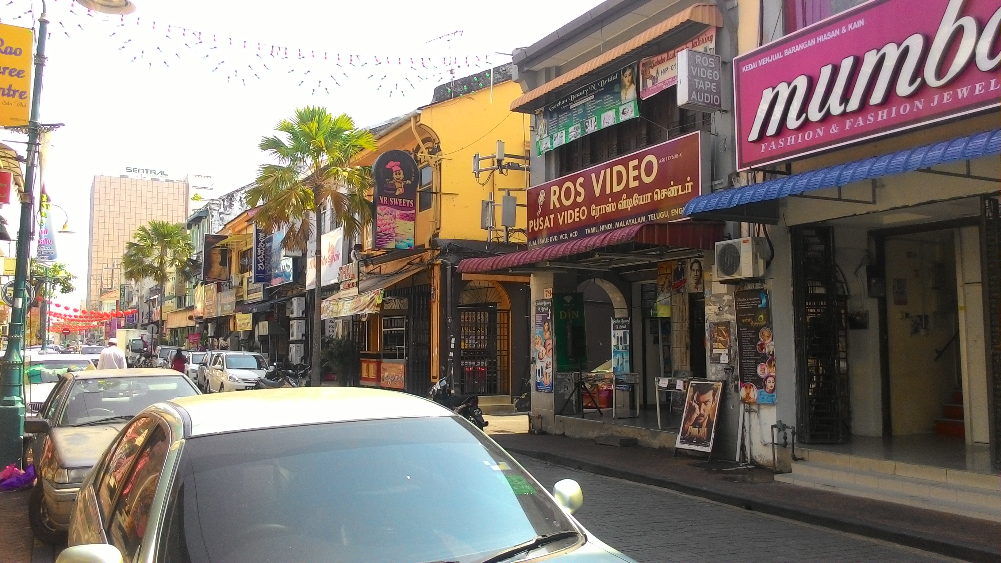 Street view of Little India with Menara Sentral (Sentral Tower) as the background, Penang